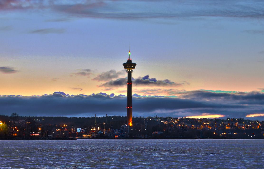 Näsinneula tower in TampereThis photograph was taken with an Olympus E-PL1